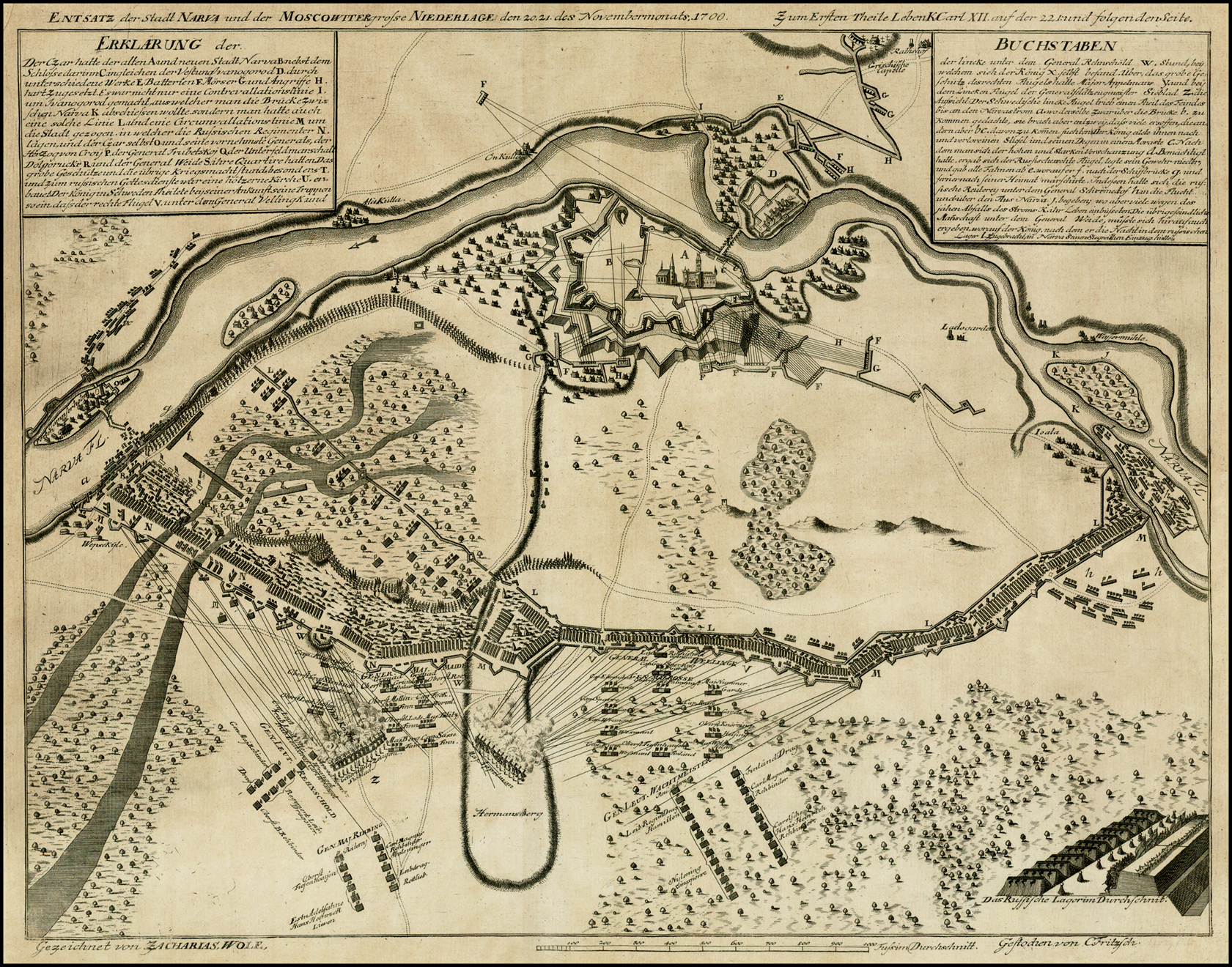 map shows fortifcations, troop placements, batteries and movements of the Battle of Narva in November 1700, which took place during the Great Northern War.